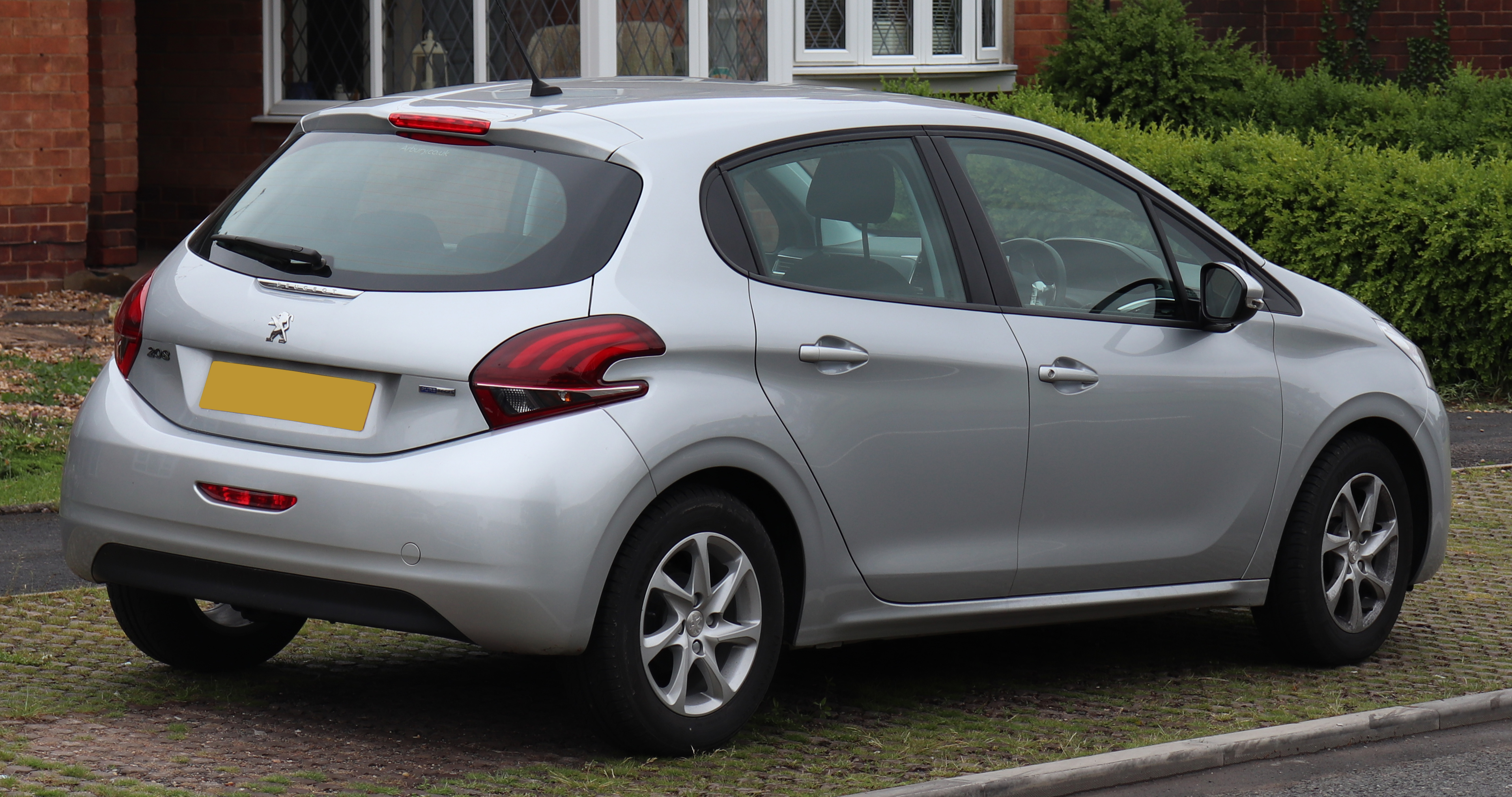 2017 Peugeot 208 Active 1.2 facelift Rear Taken in Warwick